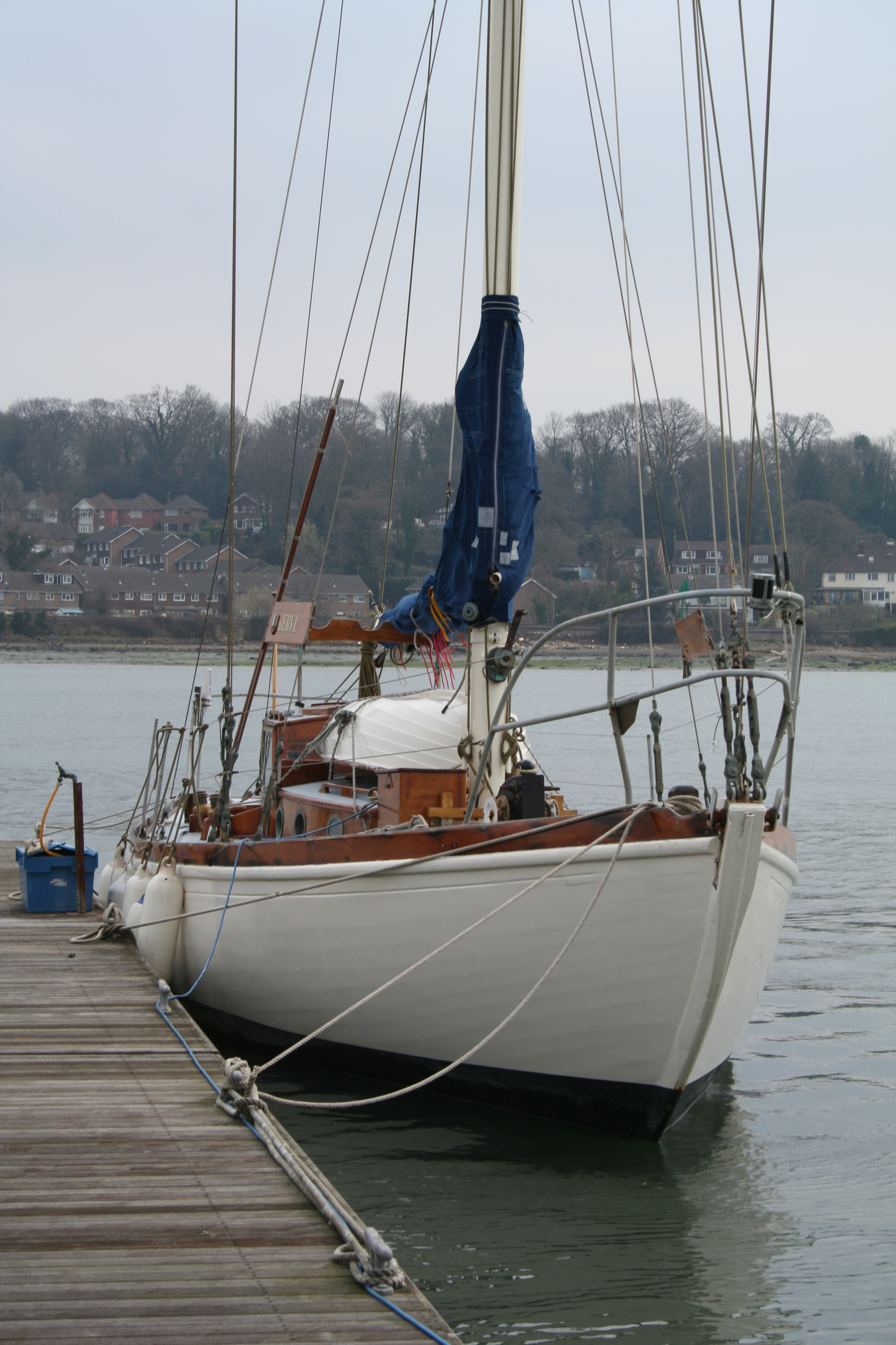 Keryl 2007